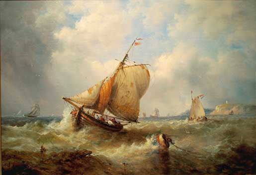 Fishing Boats Offshore by John Moore (1820-1902) of Ipswich, England.